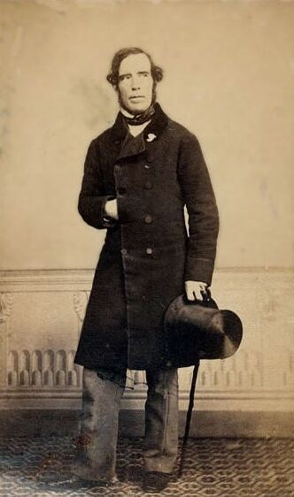 Photography of Giulio Minervini, archaeologist